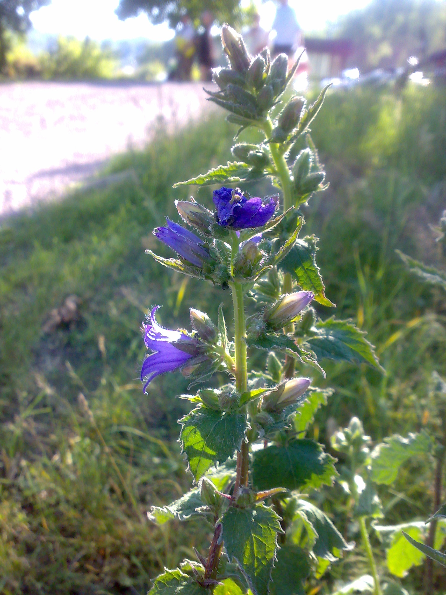 Campanula trachelium